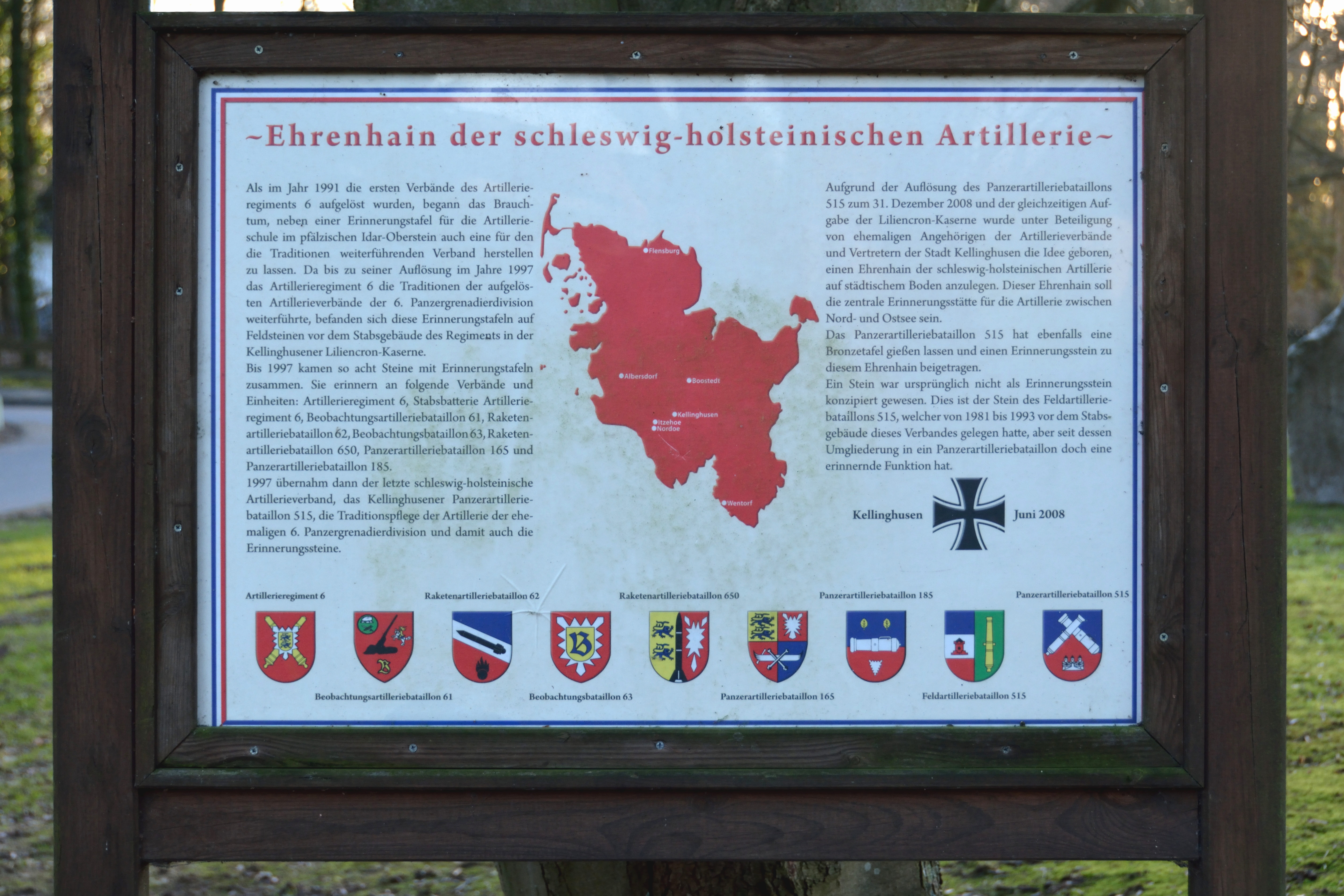 Information panel about the "Ehrenhain of Schleswig-Holstein artillery" in Kellinghusen.